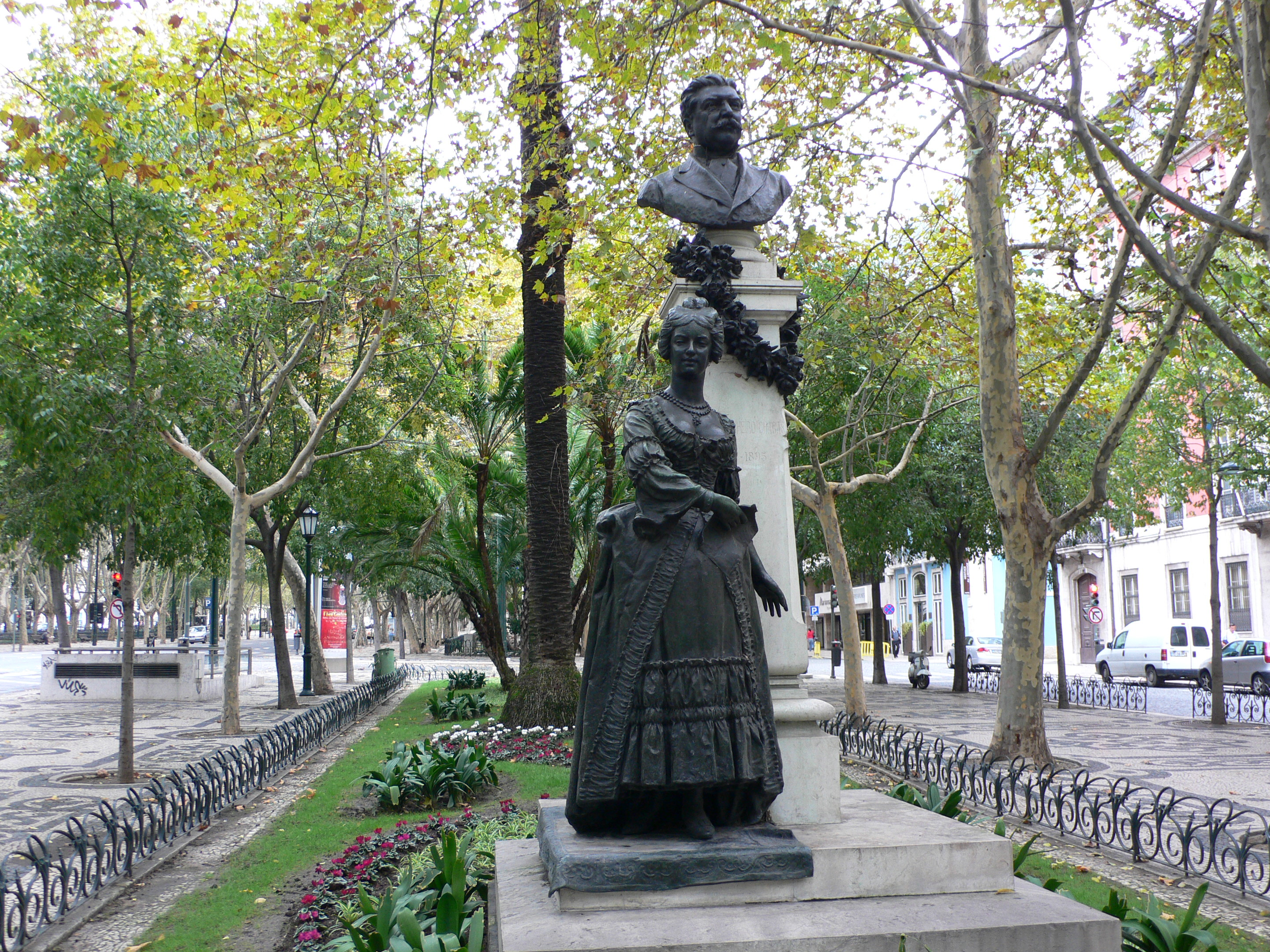 This photo links to my blog article This photo is licenced under Creative commons for use including commercial on condition that you link back to or credit See my profile for more detail.